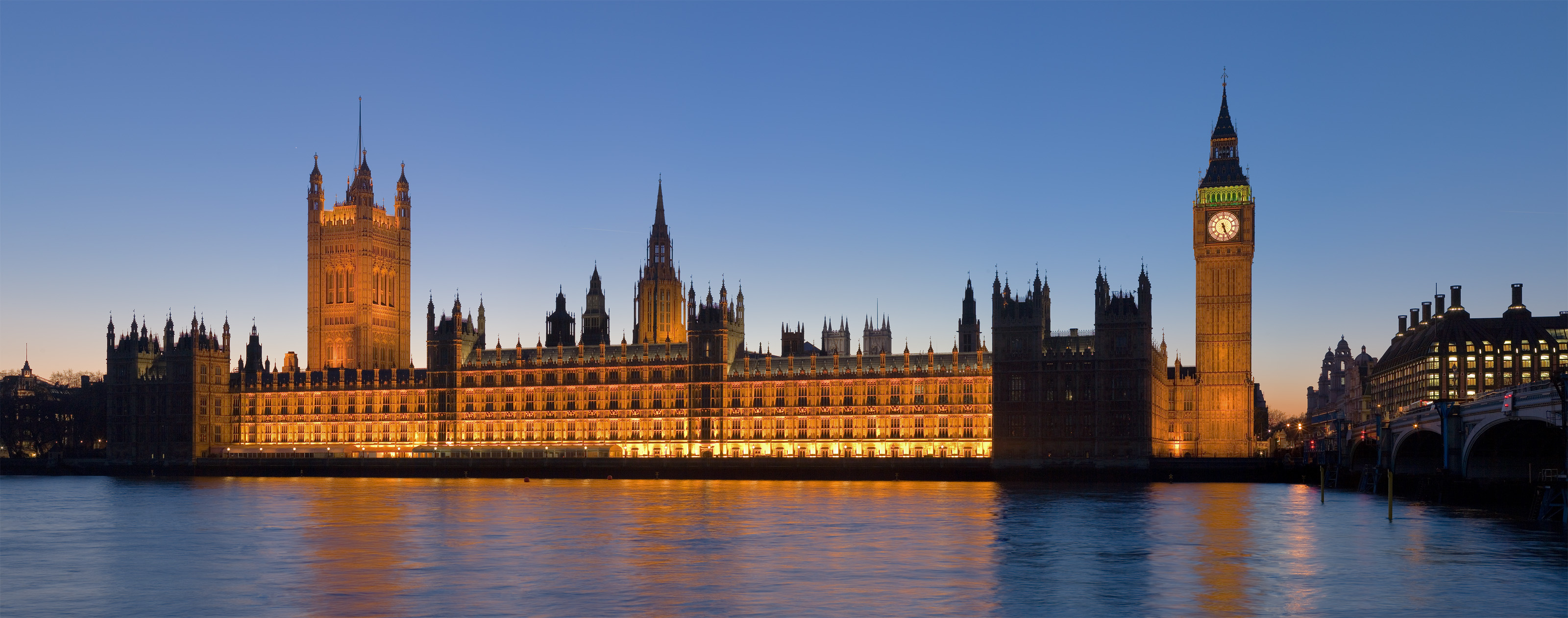 The Palace of Westminster at night as seen from the opposite side of the River Thames. Victoria Tower and the House of Lords is on the left. The Clock Tower of Big Ben and the House of Commons is on the right. The spire left of centre is the 300ft ventilation chimney above the central lobby. The twin towers with flagless pole just visible in the background is Westminster Abbey. A 2 x 6 segment panoramic image taken by myself with a Canon 5D and 85mm f/1.8 lens. Česky: Westminsterský palác, noční pohled z jižního břehu Temže.